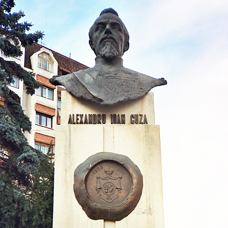 Statuia lui Alexandru Ioan Cuza în Cluj-Napoca